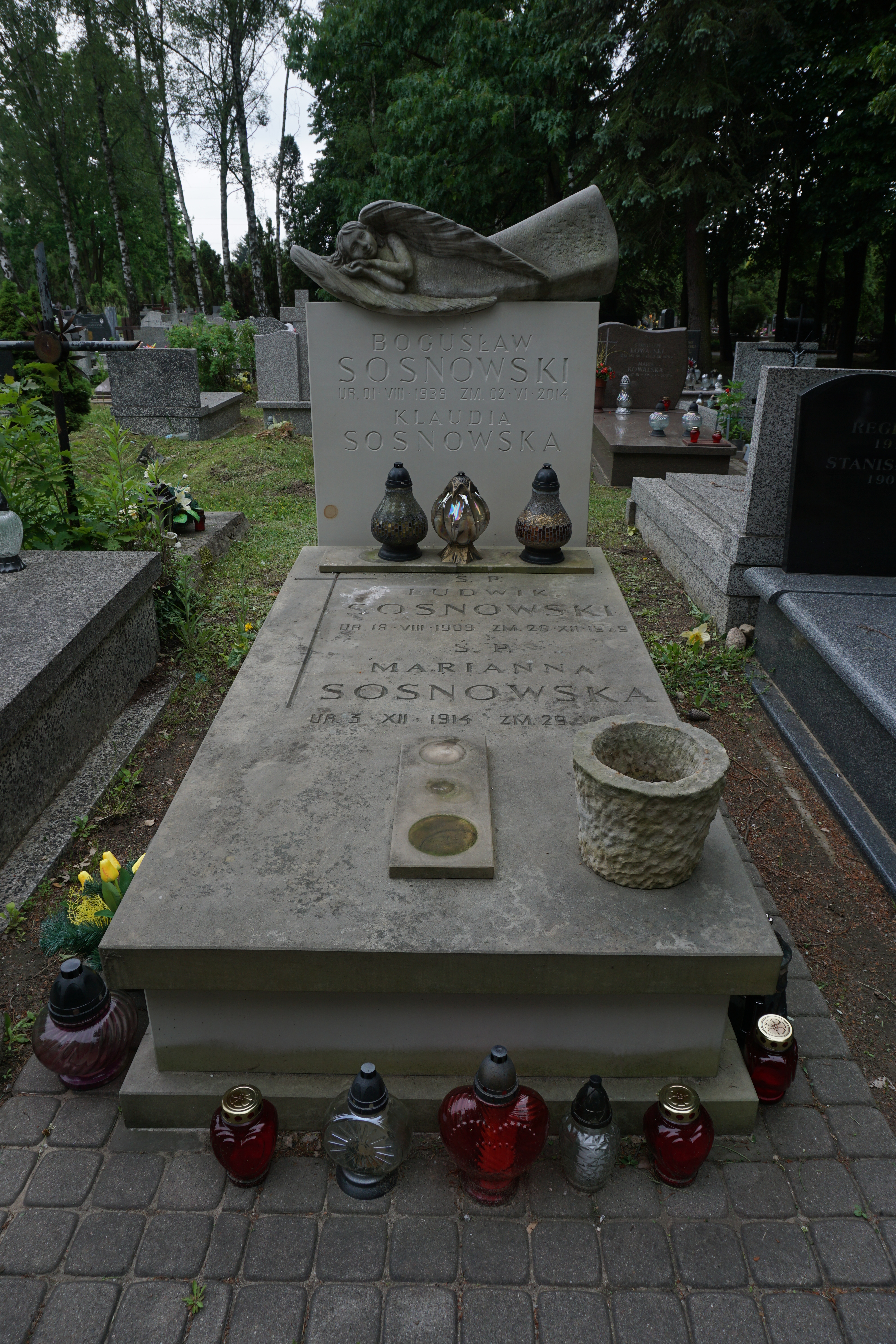 The grave of Bogusław Sosnowski at the North Municipal Cemetery in Warsaw (section E-XI-2, row 3, grave 3)